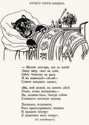 A poem from "Orange Peel" book by Maria Moravskaya (1914)